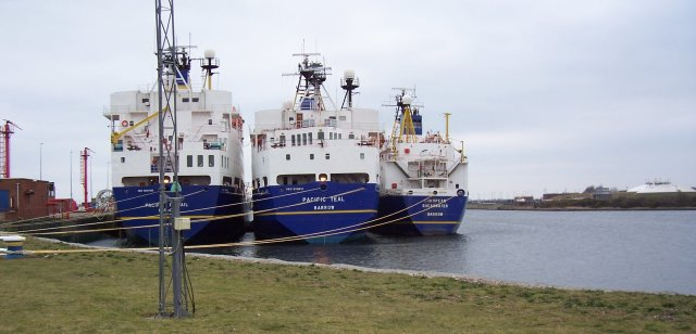 We three ships. BNFL berth at Barrow in Furness. Pacific Teal IMO Number: 8110631 Call sign GCJZ Pacific Pintail IMO Number: 8601408 Call sign GHHP